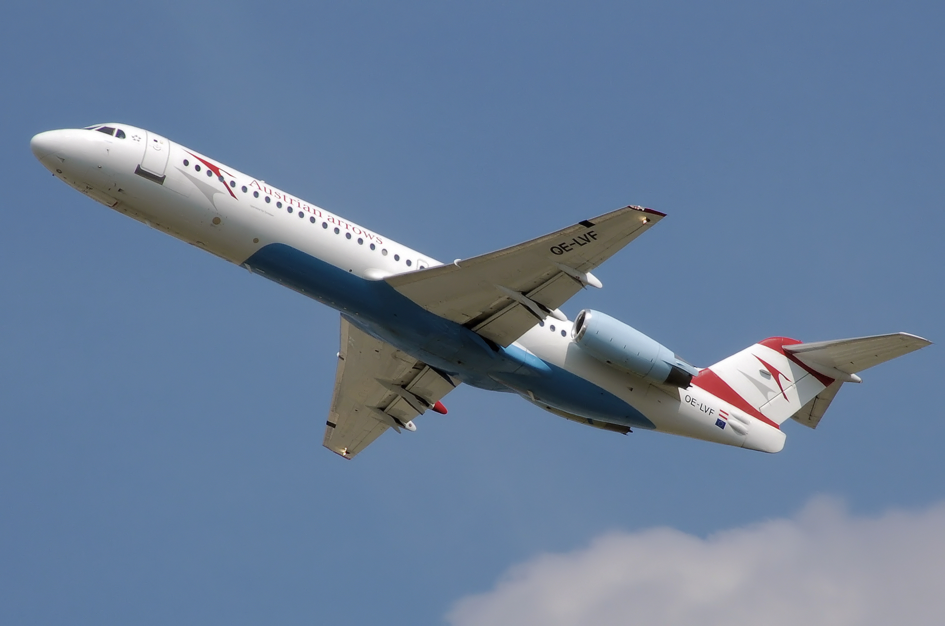 Austrian Arrows Fokker F100 (OE-LVF) taking off from London Heathrow Airport.